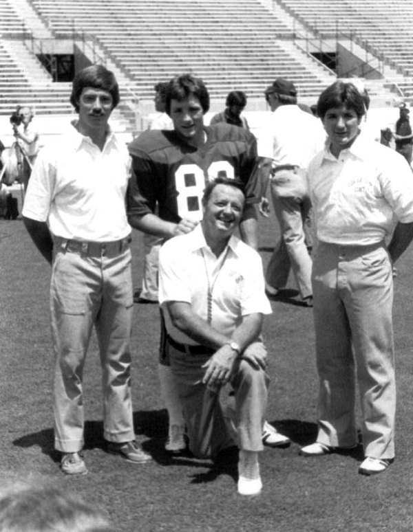 Local call number: PR12936 Title: FSU head football coach Bobby Bowden and sons: Tallahassee, Florida Date: 1982 General note: Sons (L-R): Tommy, Jeff and Terry. Physical descrip: 1 photoprint - b&w - 8 x 10 in. Series Title: Print collections Repository: State Library and Archives of Florida, 500 S. Bronough St., Tallahassee, FL 32399-0250 USA. Contact: 850.245.6700. Persistent URL: Visit Florida Memory to see more images of Bobby Bowden. Visit Florida Memory to learn more about the history of college football in Florida.